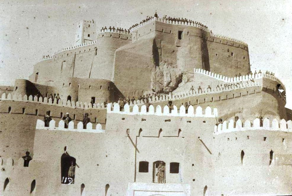 Arg-é Bam in Qajar era, c. 1902